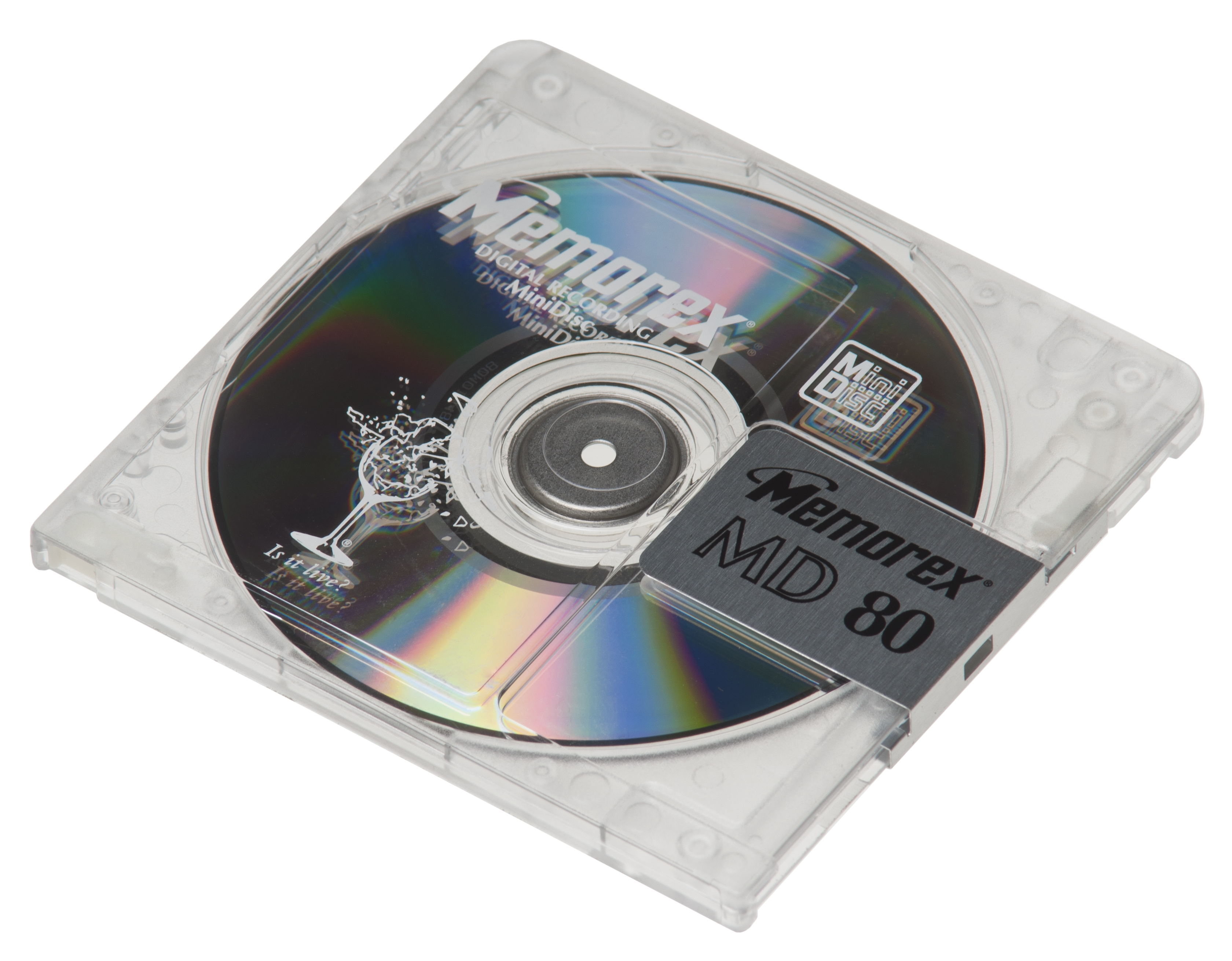 A recordable Memorex-brand minidisc.